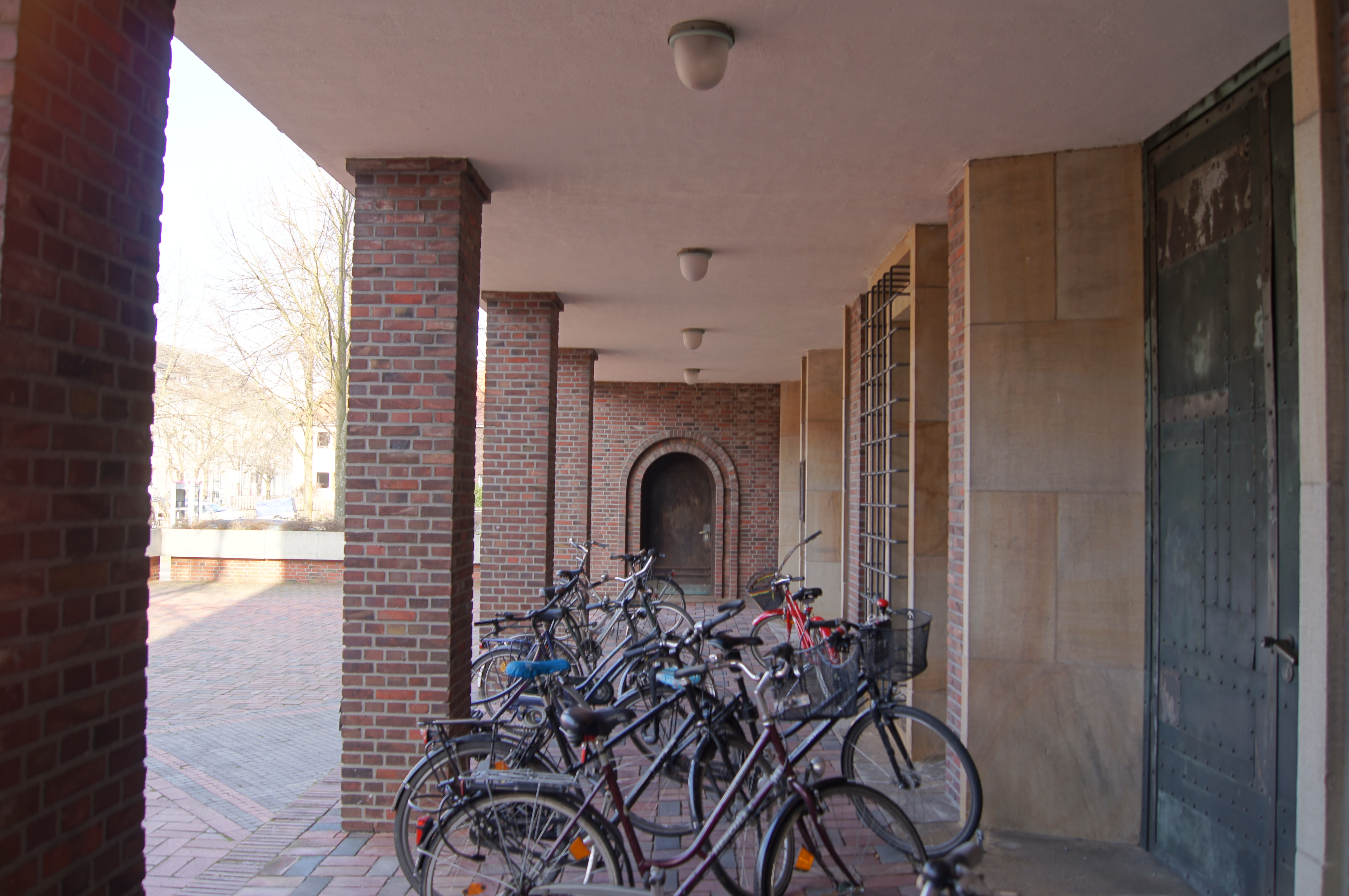 Portico of the Heilig Geist Church in Münster, North Rhine-Westphalia, Germany. Architect Walter Kremer.